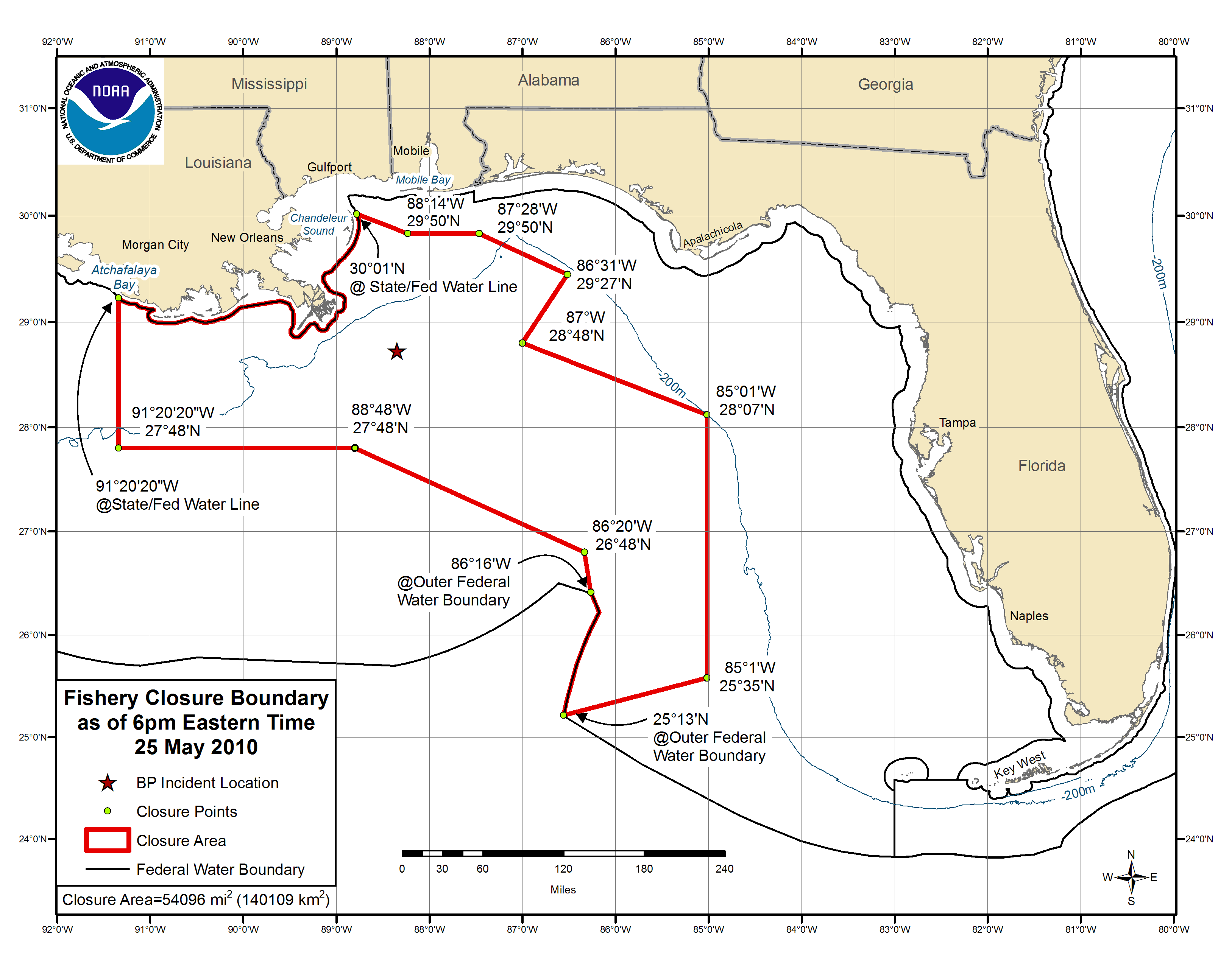 Fishery Closure Boundary as of 6pm Eastern Time 25 May 2010 - Gulf of Mexico, Deepwater Horizon Oil Spill